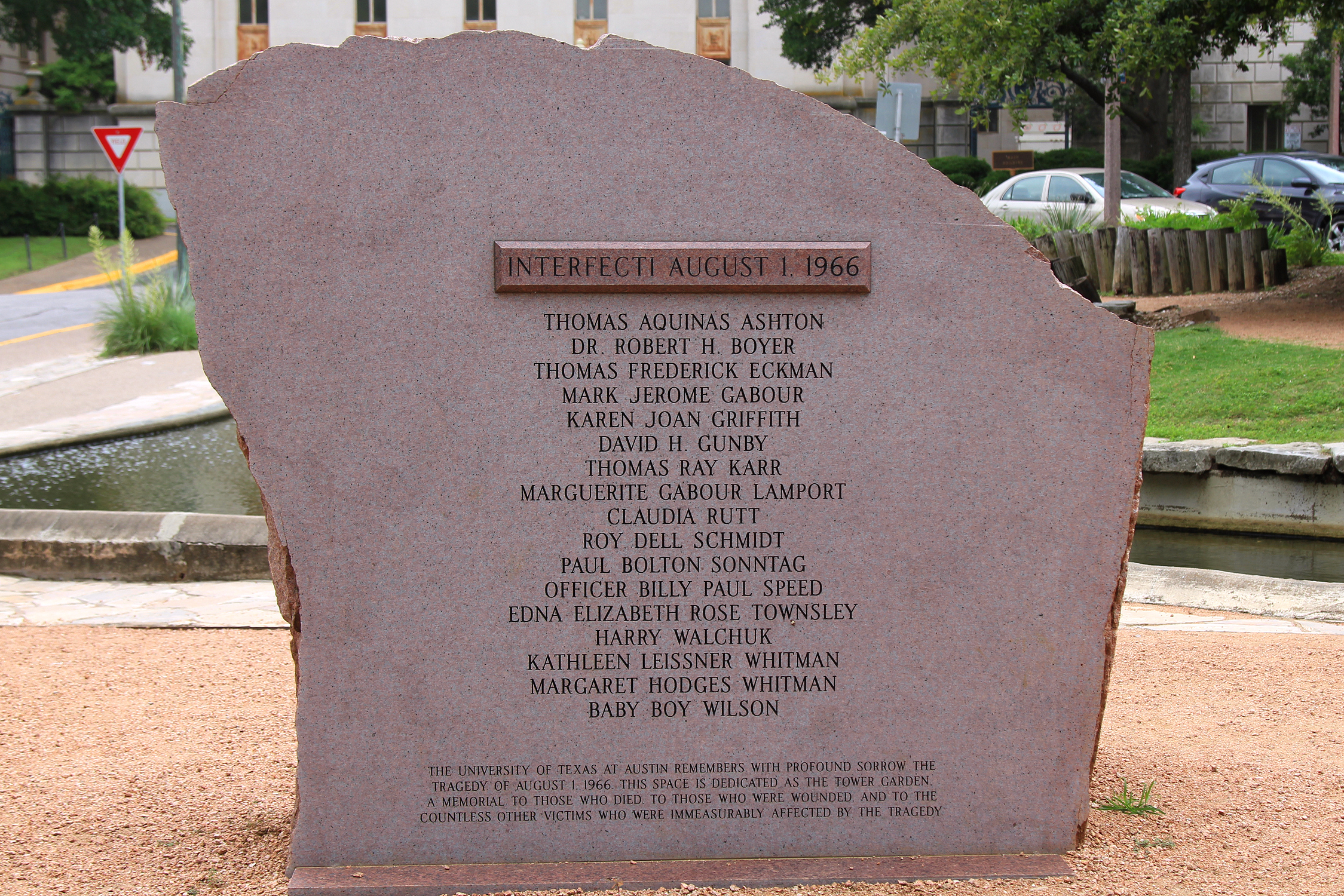 Pink granite memorial to those killed at the University of Texas tower shooting in Austin, Texas, United States on August 1, 1966. The Tower Memorial Enhancement Group placed the memorial with approval from the University of Texas Division of Diversity and Community Engagement. Cook-Walden Funeral Homes and Cemeteries paid for the memorial and bench to honor Charles Walden, the former owner of Cook-Walden, who was present during the shooting and used his company's hearses as ambulances.